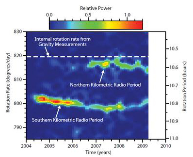 Analysis of periodicities in Saturn kilometric radiation reveals two periods as indicated in this display. The kilometric radio emissions coming from the Northern hemisphere have a period near 10.6 hours, implying a rotation rate in this hemisphere of about 816 degrees per 24 hours. Radio emissions coming from the Southern hemisphere have a period of about 10.8 hours, implying a rotation rate of about 800 degrees per day. Both periods vary with time and the strength of the modulation also varies for both. The dashed line is an estimate of Saturn's internal rotation period (or rotation rate) based on gravity measurements and Saturn's shape. The fact that both radio periods are longer than the internal period is evidence that Saturn's magnetosphere is slipping with respect to the interior of the planet.